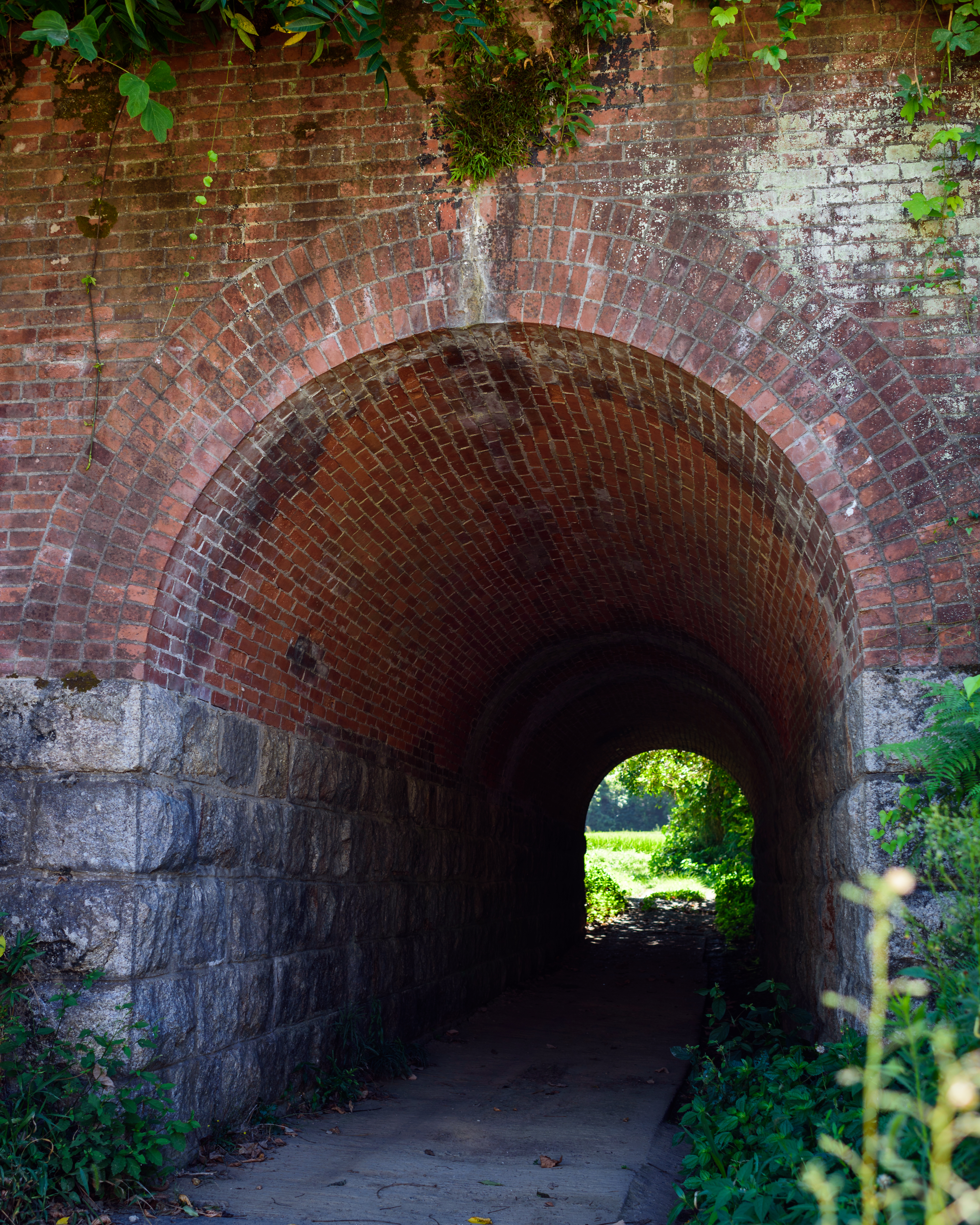 Kajigaya Zuidō (梶ヶ谷隧道) is the road tunnel in Kizugawa, Kyoto Prefecture, Japan. It was built for the purpose of a road tunnel under the railroad of Kansai Railway (関西鉄道) in 1898. (cf. History_of_rail_transport_in_Japan, Kansai_Main_Line)